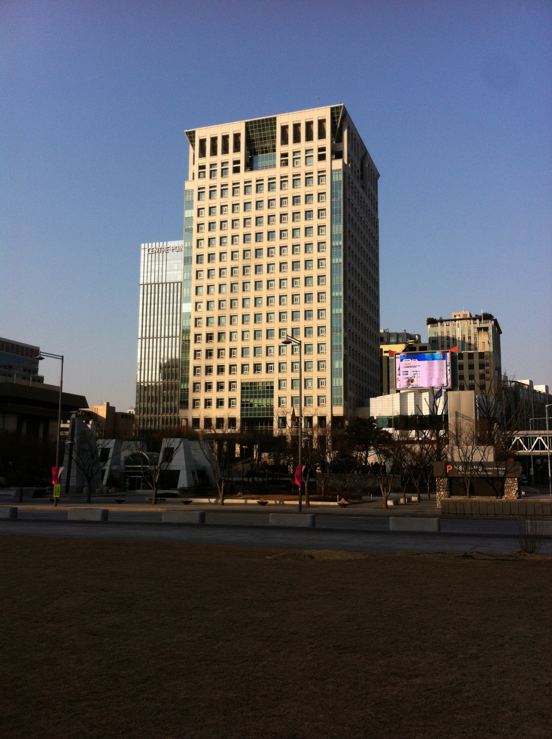 The annex of Central Government Complex, located at 60, Sajingno 8gil , Jongnogu, Seoul. Located right next to the main building, connected by a pedestrian bridge. Built between 1997 and 2002 to provide a relief to the overcrowded main building. Mostly used by the Ministry of Foreign Affairs.